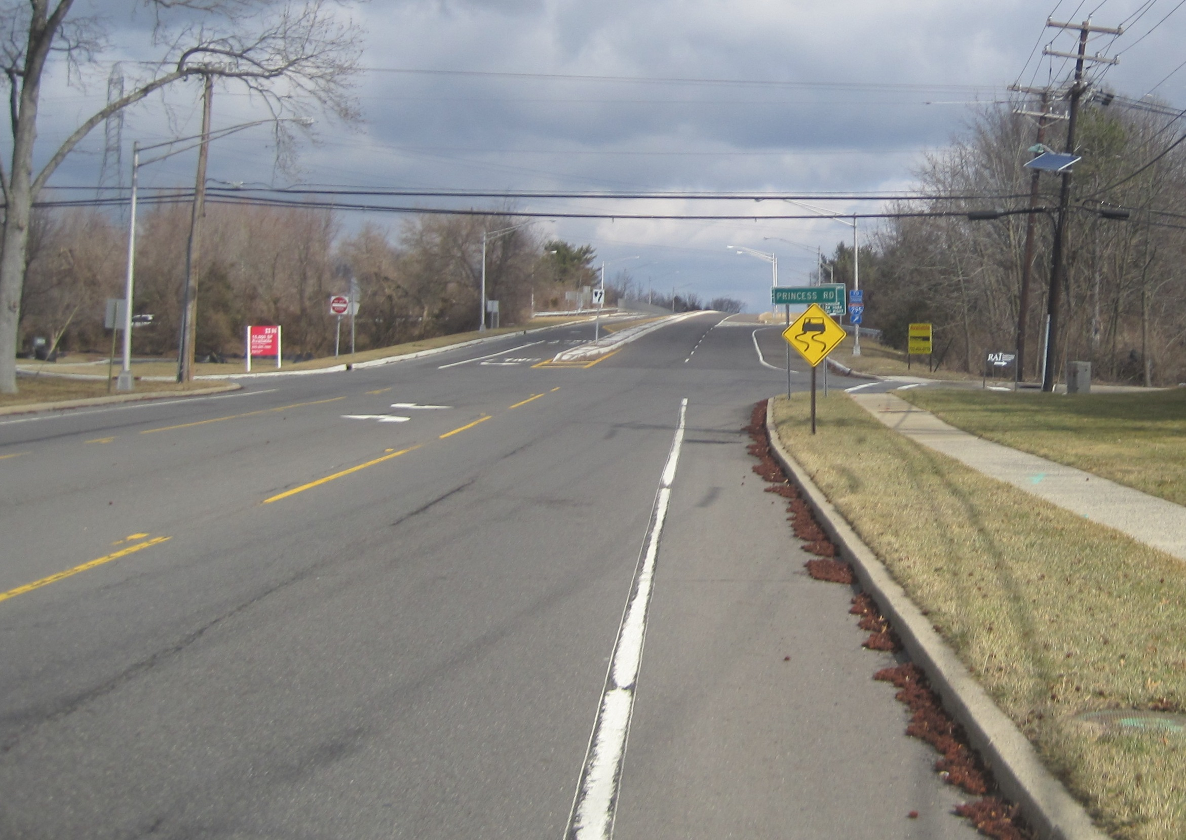 County Route 583 northbound approaching Interstate 95 in Lawrence Township, New Jersey.